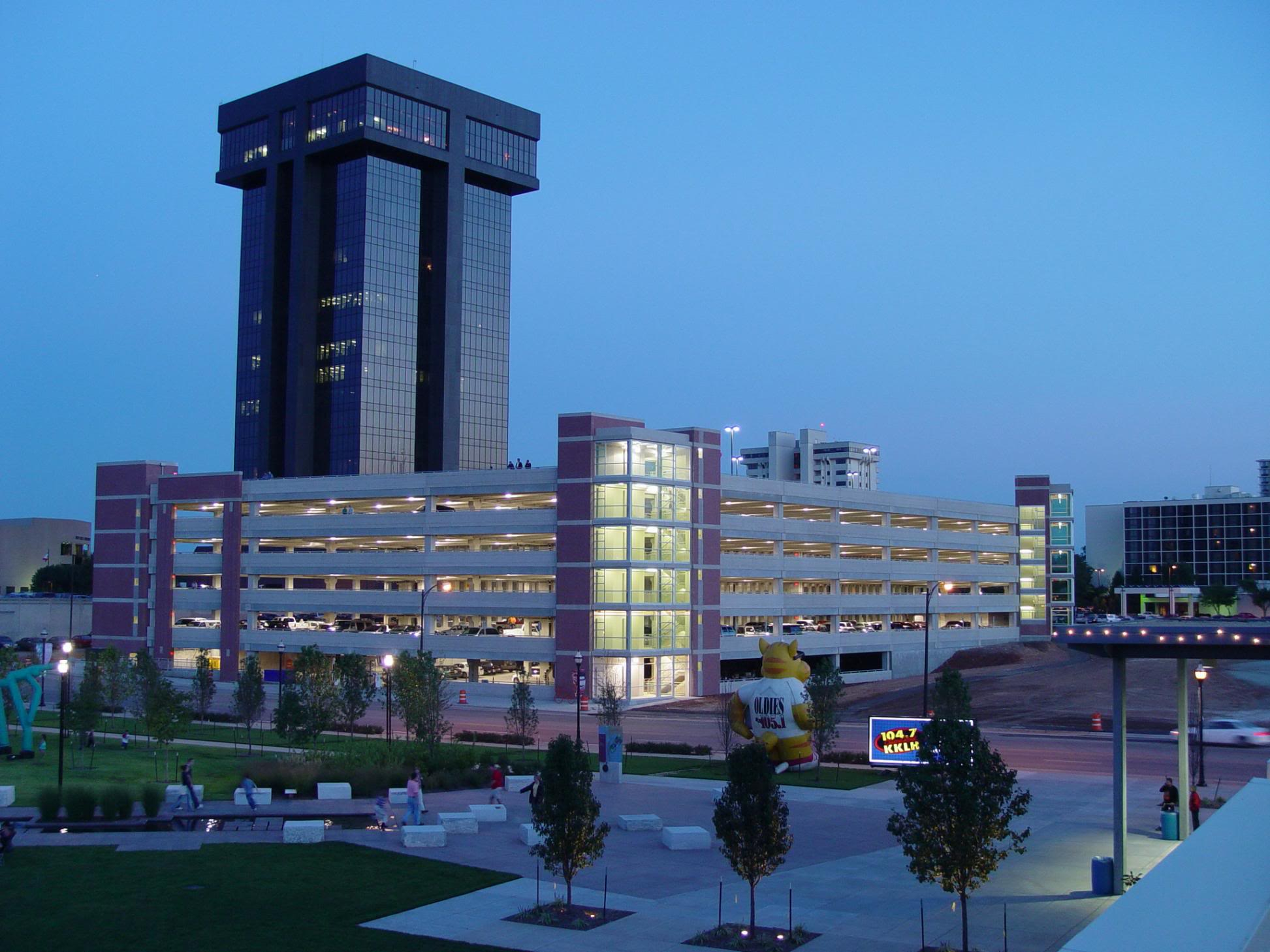 Jordan Valley Park.